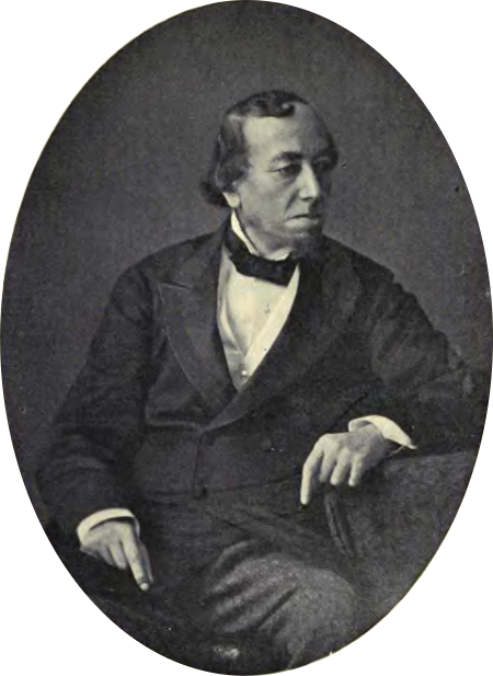 British politician and Prime Minister Benjamin Disraeli (Lord Beaconsfield).